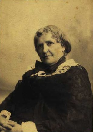 Anna Magdalene Thoresen, née Kragh (1819-1903), Dano-Norwegian writer